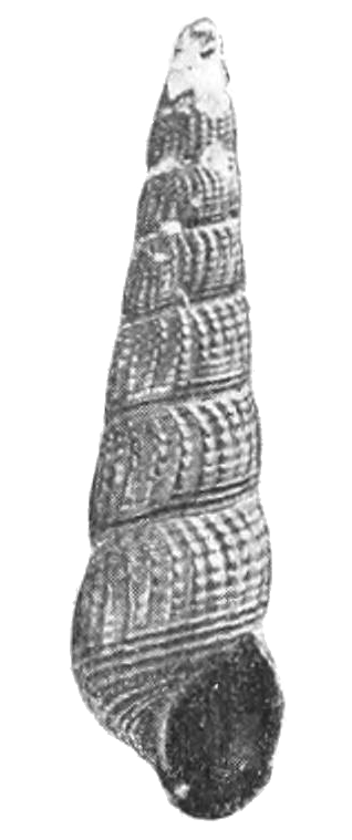 An apertural view of a shell of Tylomelania toradjarum.